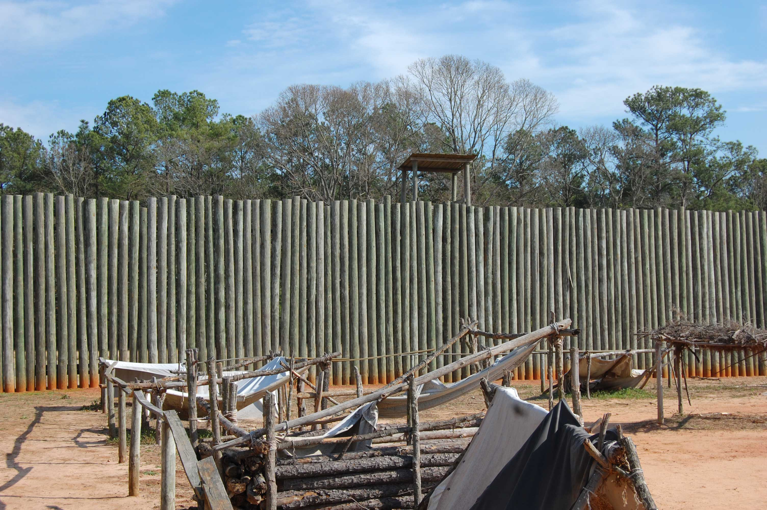 reconstructed wall at Andersonville